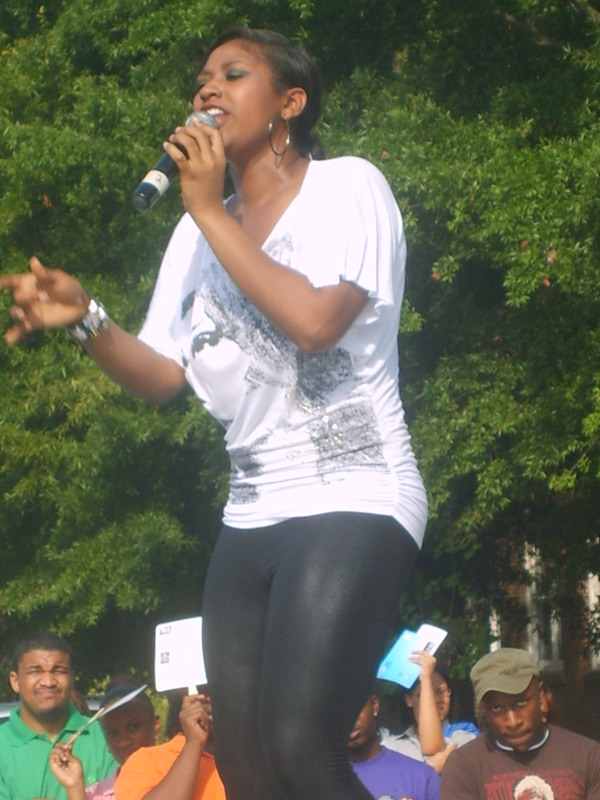 Jazmine Sullivan singing live at a concert in Columbia, SC on August 7, 2008.